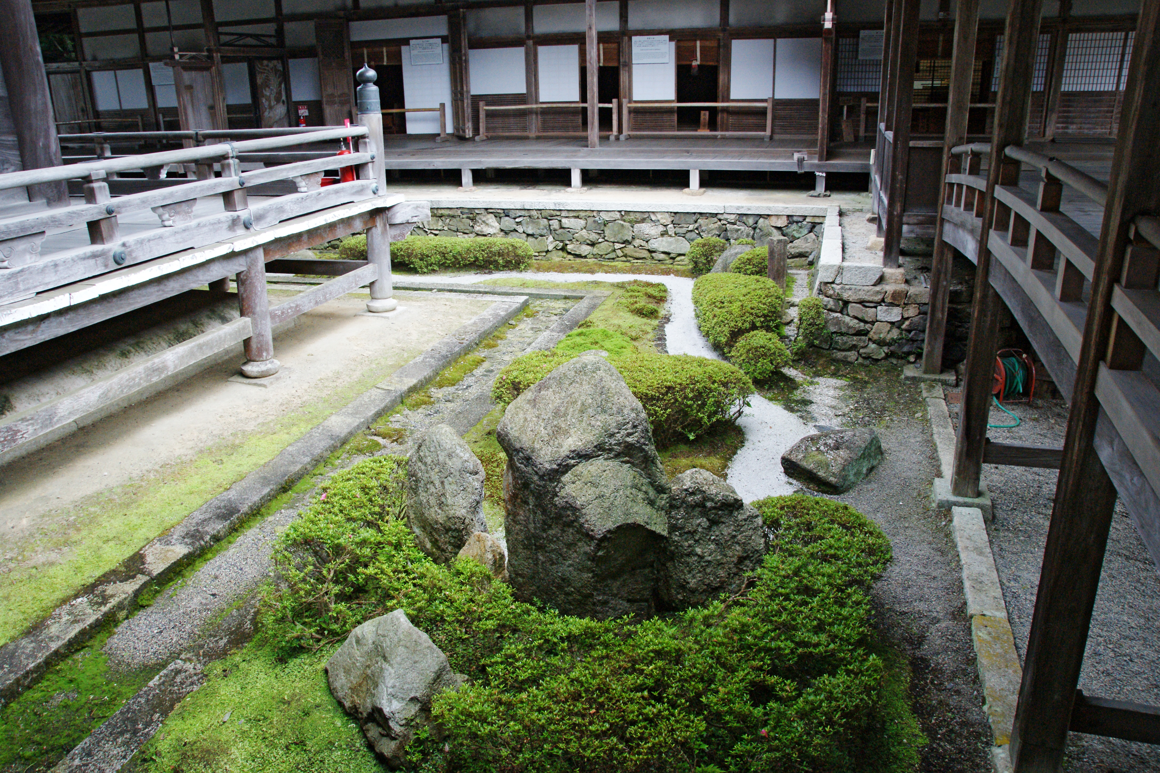 Saikyoji in Sakamoto, Otsu, Shiga prefecture, Japan